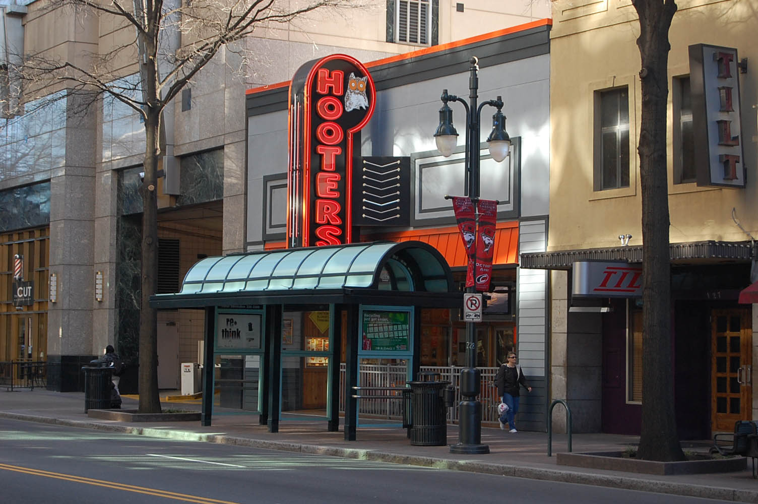 Hooters in Charlotte, NC USA